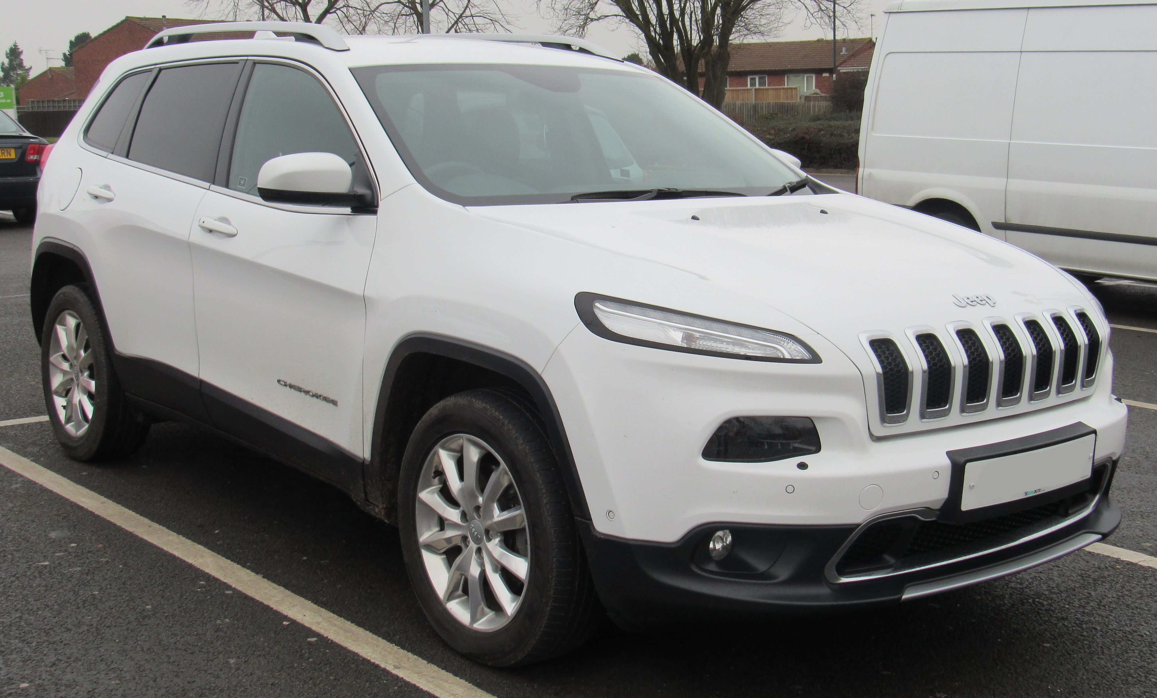 2016 Jeep Cherokee Limited Multjet II 2.2 Taken in Leamington Spa